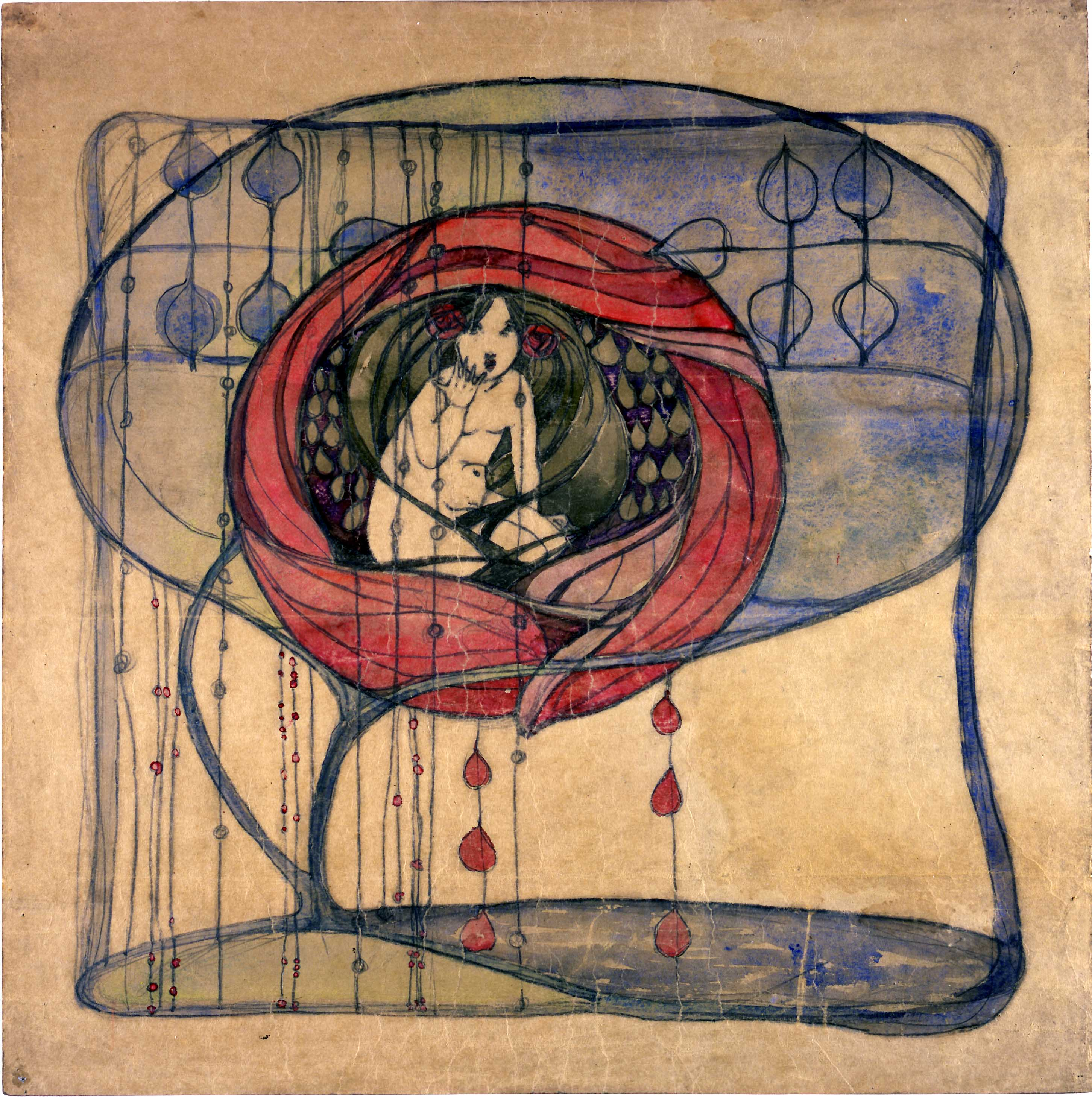 Girl in a tree